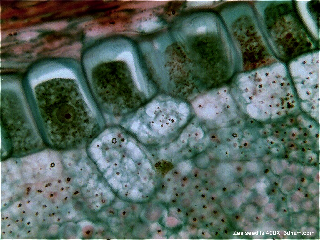 Zea seed longitudinal section Magnified 400 times